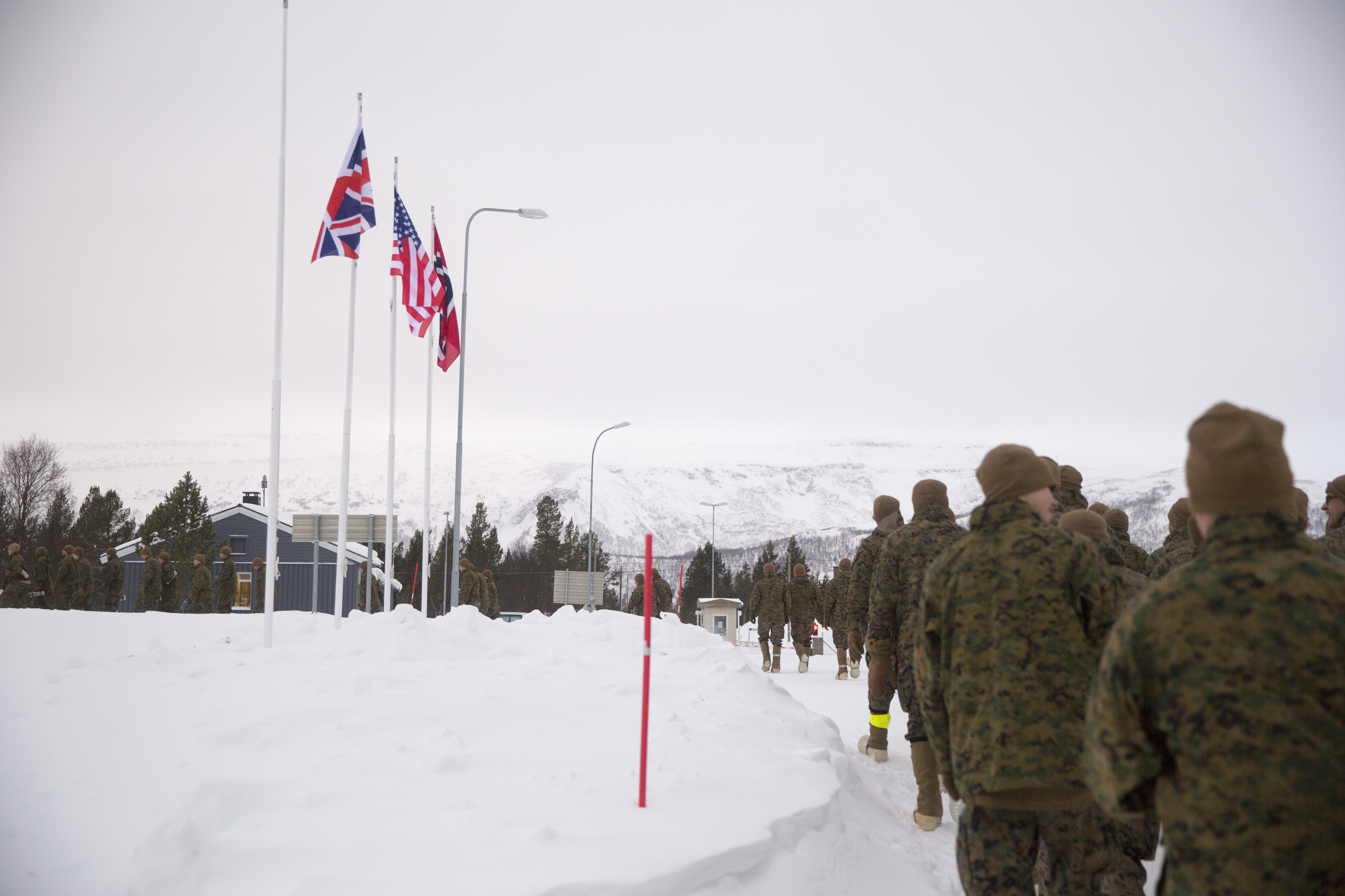 Marines with Black Sea Rotational Force receive an on-base tour during cold-weather training aboard Porsangmoen, Norway, Jan. 30, 2016. The Arctic training was hosted by the Norwegian military and conducted by U.K. Royal Commandos to improve the U.S. Marine Corps’ capability to respond and operate in different environments. (U.S. Marine Corps photo by Cpl. Immanuel Johnson/Released) Unit: U.S. Marine Corps Forces Europe and Africa